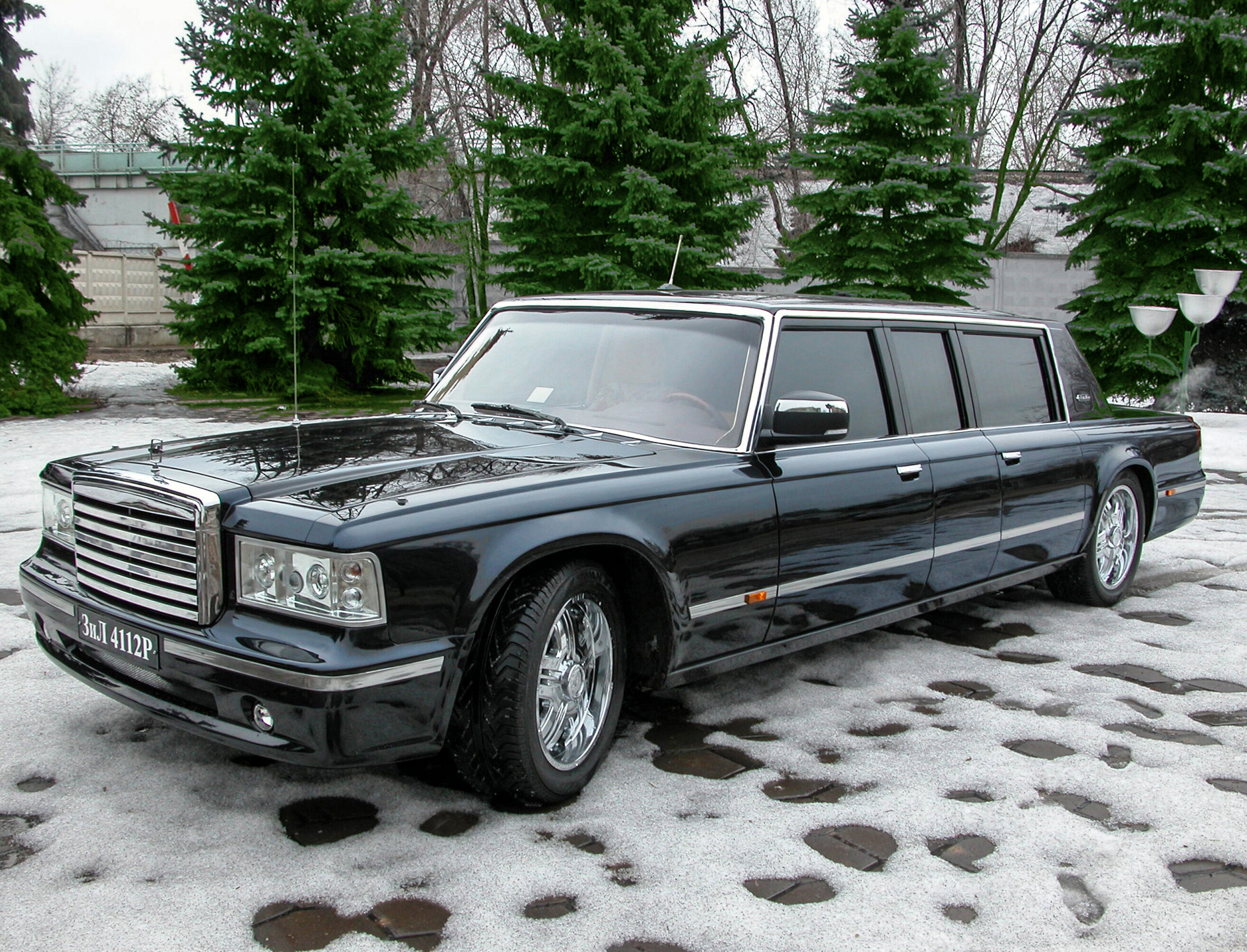 ZIL-4112R on the Kremlin spruce background